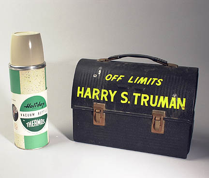 Lunch box Made by American Thermos Products Company Hand lettered in yellow paint, "OFF LIMITS HARRY S. TRUMAN." Metal, plastic. L 18.7, W 26.0, D 12.0 cm Harry S Truman National Historic Site, HSTR 22251 Vacuum Bottle Made by American Thermos Products Company Aluminum, glass, plastic. L 5.9, W 5.4, T 3.6 cm